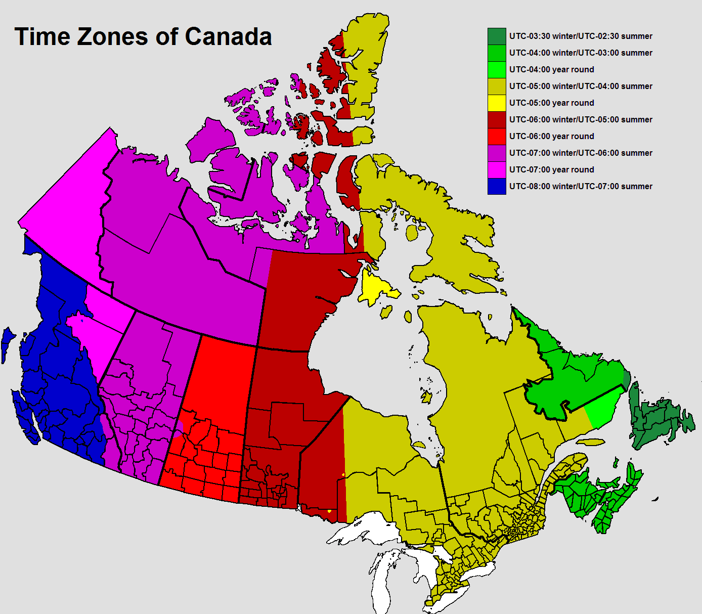 Time zones of Canada